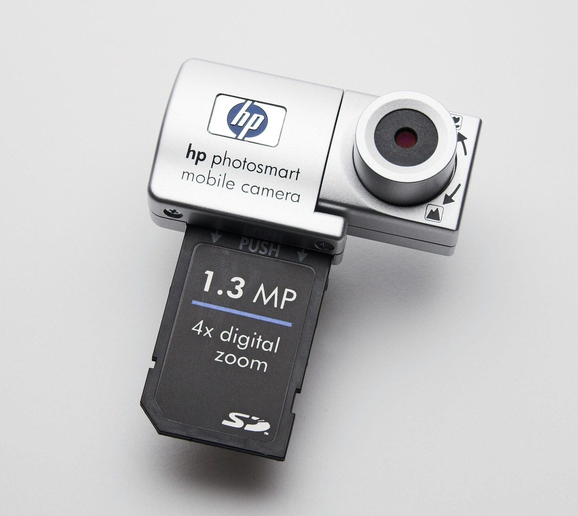 Digital camera for SDIO (Secure Digital Input/Output) slots.